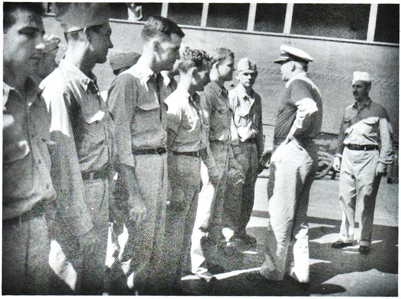 Survivors of the U.S. Naval light cruiser USS Helena (CL-50) being greeted by Admiral Walden Ainsworth (with cap). Commander Charles L. Carpenter, senior officer of the first group of survivors rescued, is visible behind the Admiral.